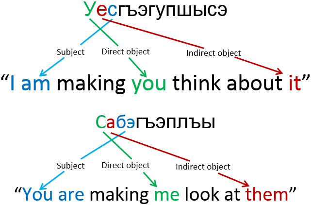 Ditransitive Absolutive verbs